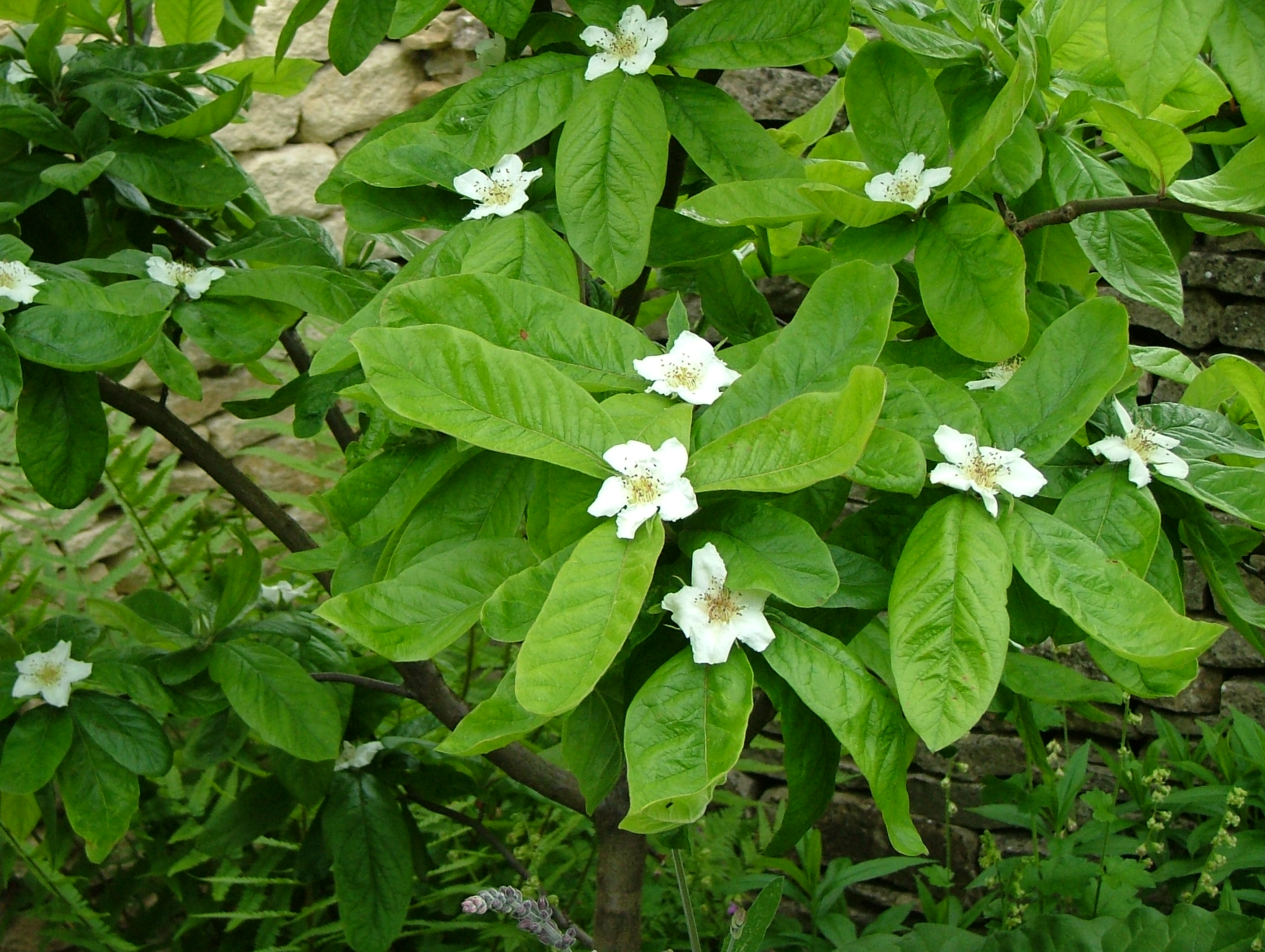 Blossom of common medlar (photographed by me, in my garden)